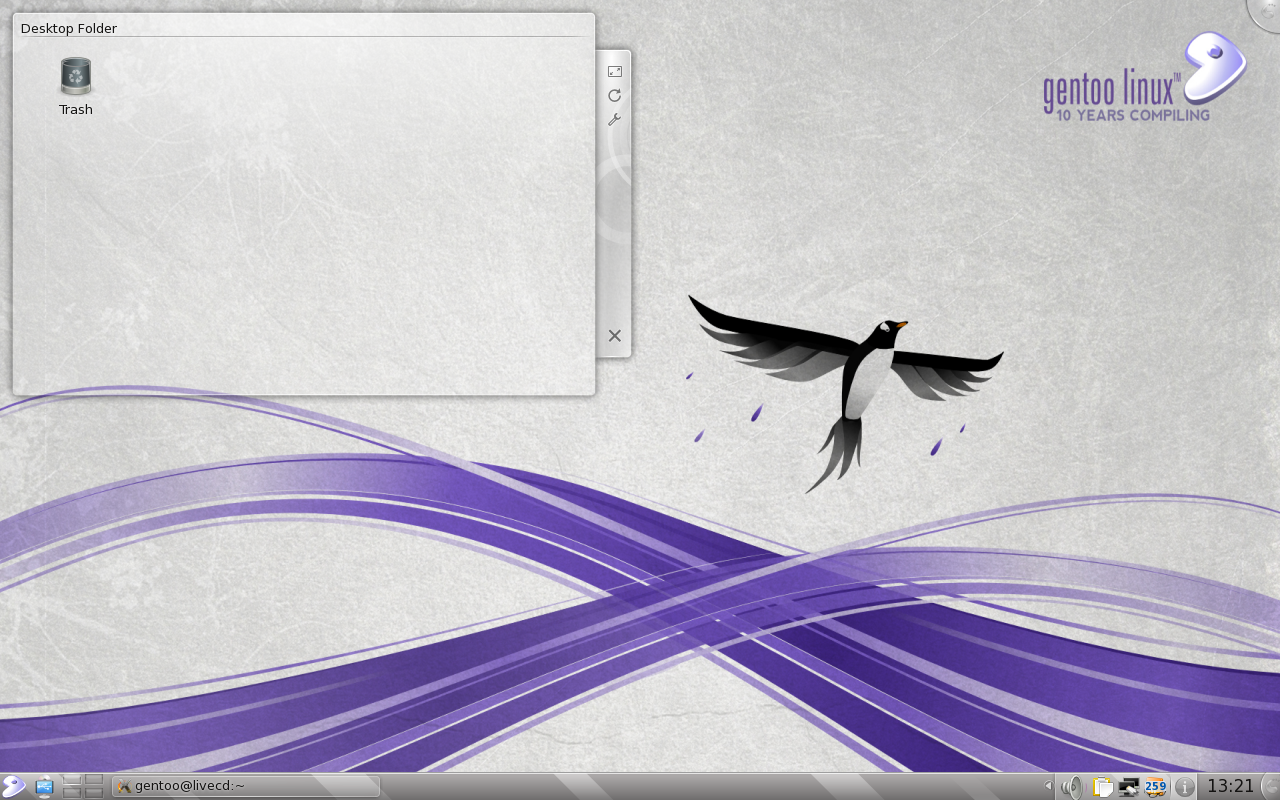 Default KDE 4 screen of the Gentoo Linux 10.0 LiveDVD